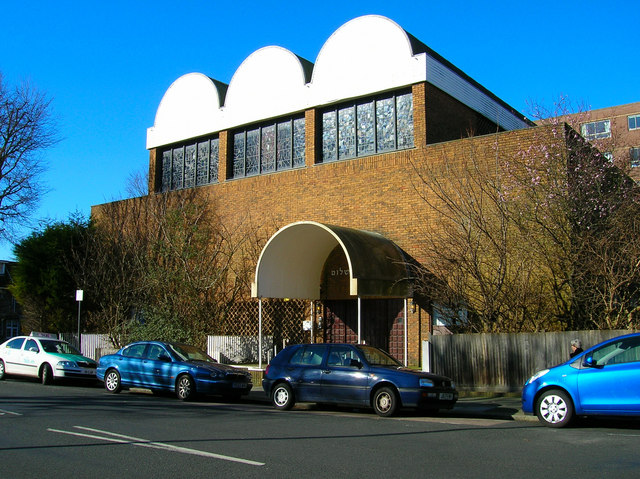 Brighton & Hove Reform Synagogue, Palmeira Avenue There are three synagogues in this square alone reflecting the prominent part played by the Jewish population of the city. Palmeira Avenue is named after a titled bestowed on Sir Isaac Goldsmid, a local landowner who developed this part of the estate, by the Portuguese government. Goldsmid named many roads after members of his family and even today the local council ward for the area is known as Goldsmid. Sir Isaac was also an early proponent of Reform Judaism in the country. The building as far as I am aware was built in the mid 1950s.